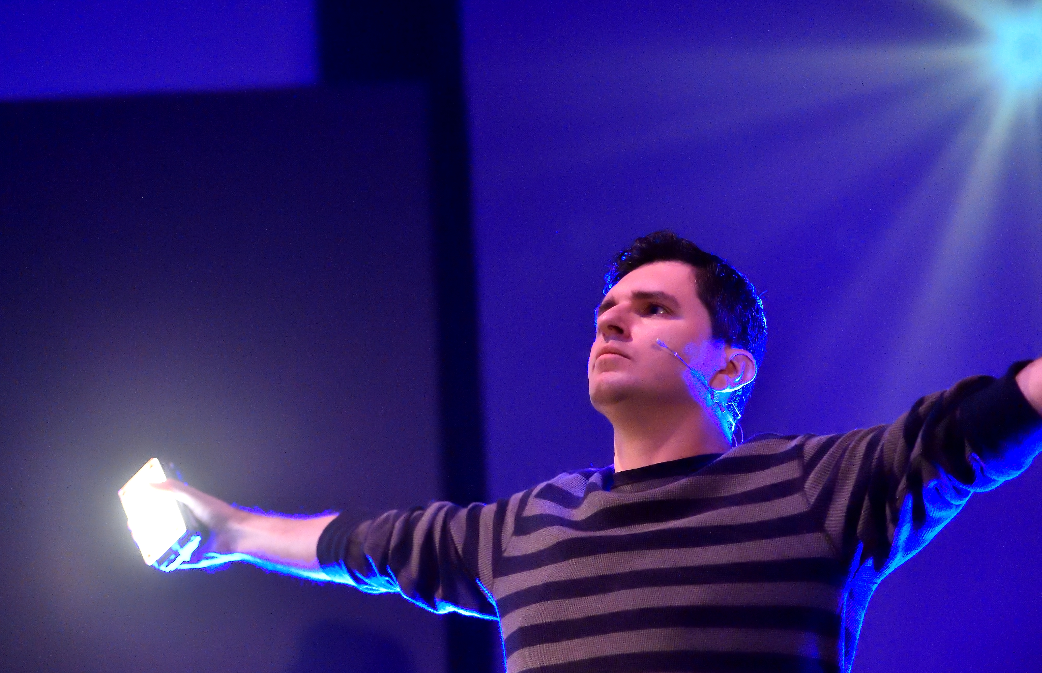 Alan, assistant to Captain Disillusion at QED 2016